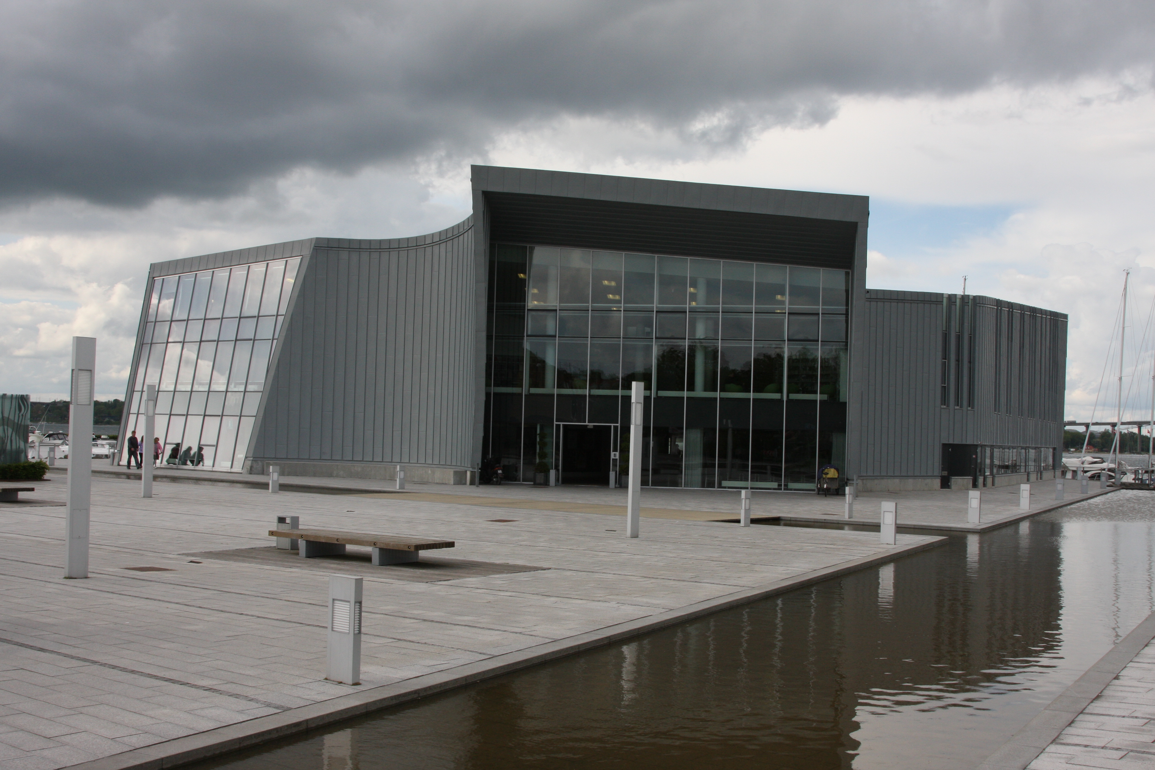 KulturØen in Middelfart, Denmark, is the town's cultural centre.